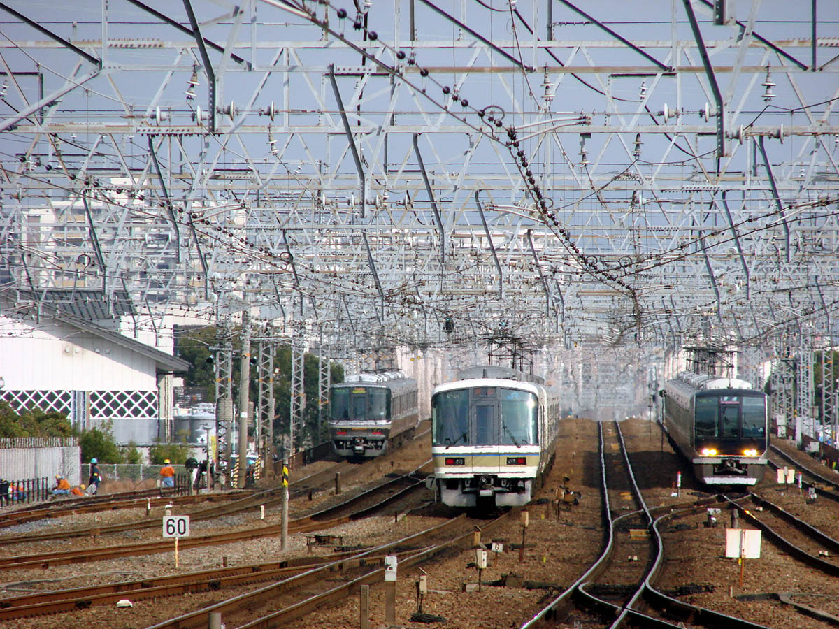 JR West 223 series, 221 series and 321 series EMUs (from left to right)